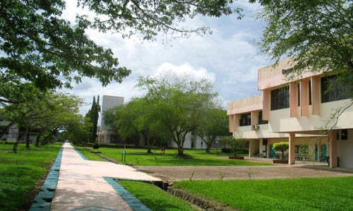 Universiti Putra Malaysia Bintulu Campus (UPM) in Sarawak, Malaysia.